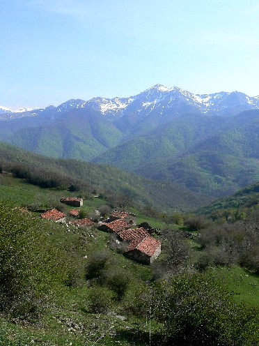 Cantabrian mountains, Northern Spain.